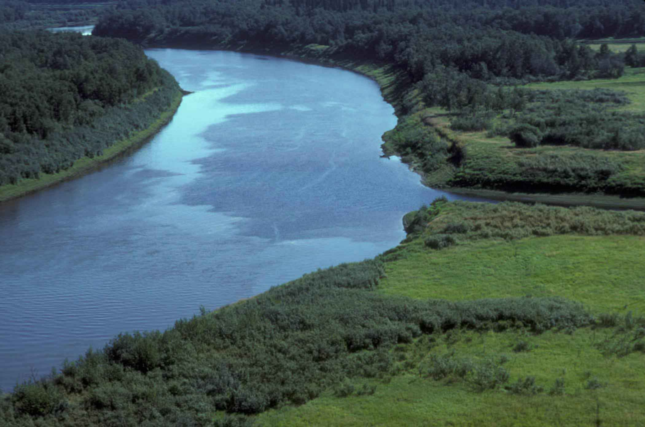 Image title: Aerial view of the Innoko river in summer Image from Public domain images website